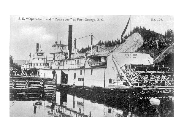 Photo taken 1913 #B-00296